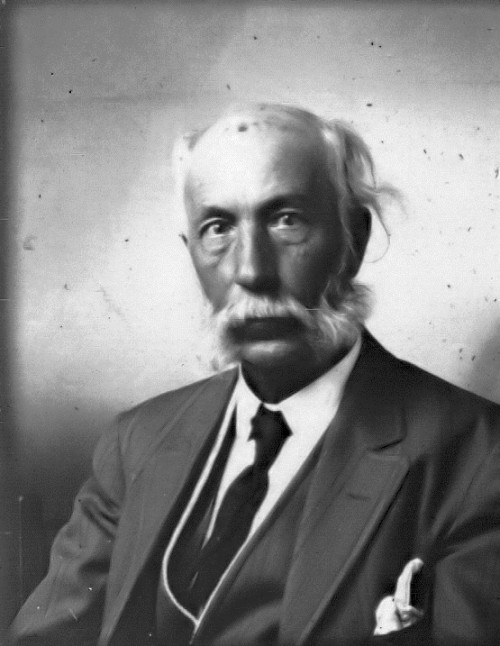 Carl Myers 1920